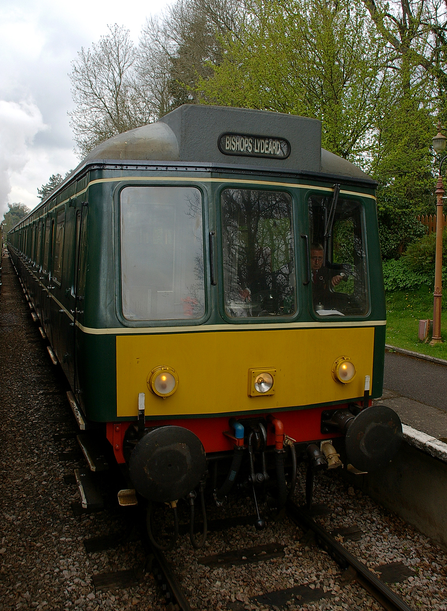 Two trains pass at Crowcombe Heathfield on the West Somerset Railway - class 115 DMU